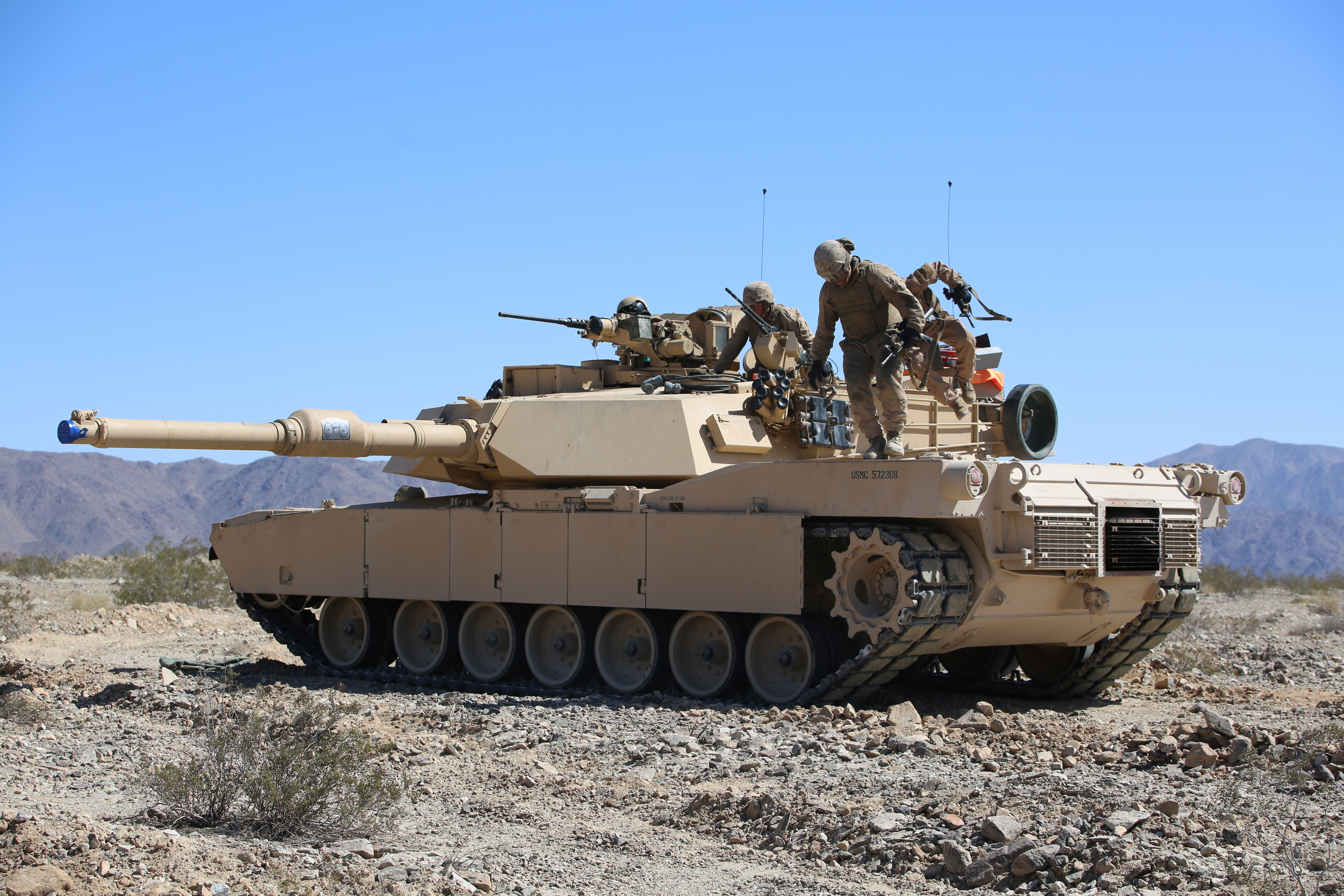 Marines with Tank Platoon, Company B, Ground Combat Element Integrated Task Force, conduct a crew evacuation drill off of an M1A1 Abrams tank during a Marine Corps Operational Test and Evaluation Activity assessment at Range 500, Marine Corps Air Ground Combat Center Twentynine Palms, California, March 7, 2015. From October 2014 to July 2015, the GCEITF will conduct individual and collective level skills training in designated ground combat arms occupational specialties in order to facilitate the standards-based assessment of the physical performance of Marines in a simulated operating environment performing specific ground combat arms tasks. (U.S. Marine Corps photo by Cpl. Paul S. Martinez/Released)